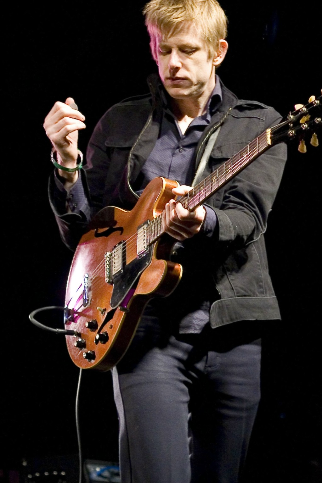 Britt Daniel of Spoon, taken at Fun Fun Fun Fest, Austin, Texas.